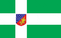 Flag of Türi town